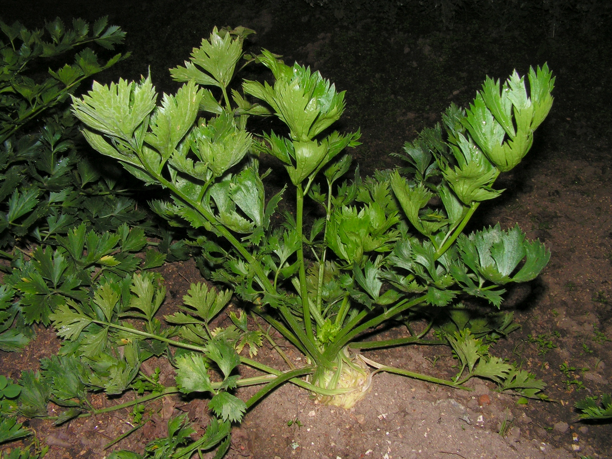 Celery. Moscow region, Russia.